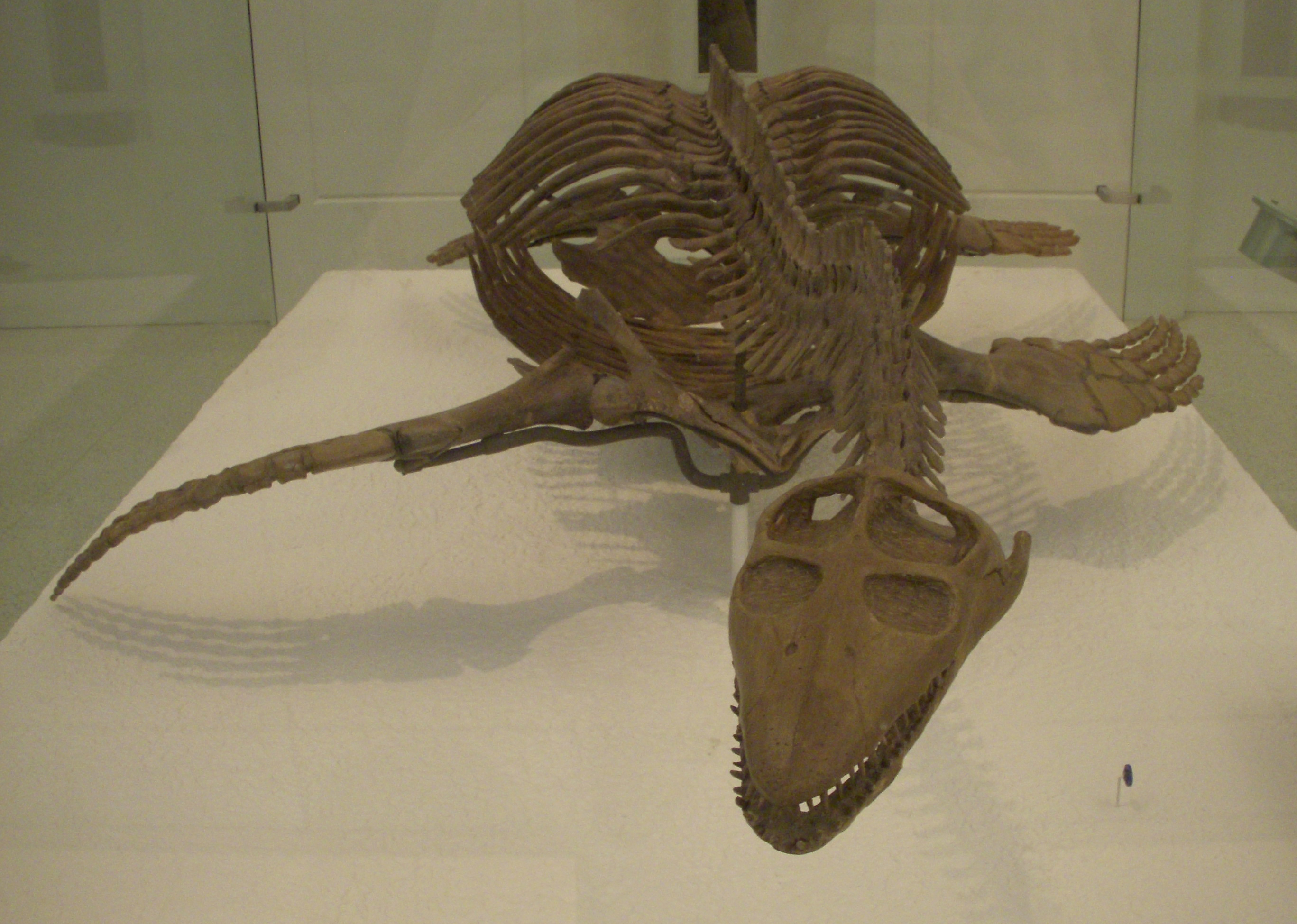 Skeleton of Cryptoclidus oxoniensis (specimen AMNH 995) in the American Museum of Natural History.